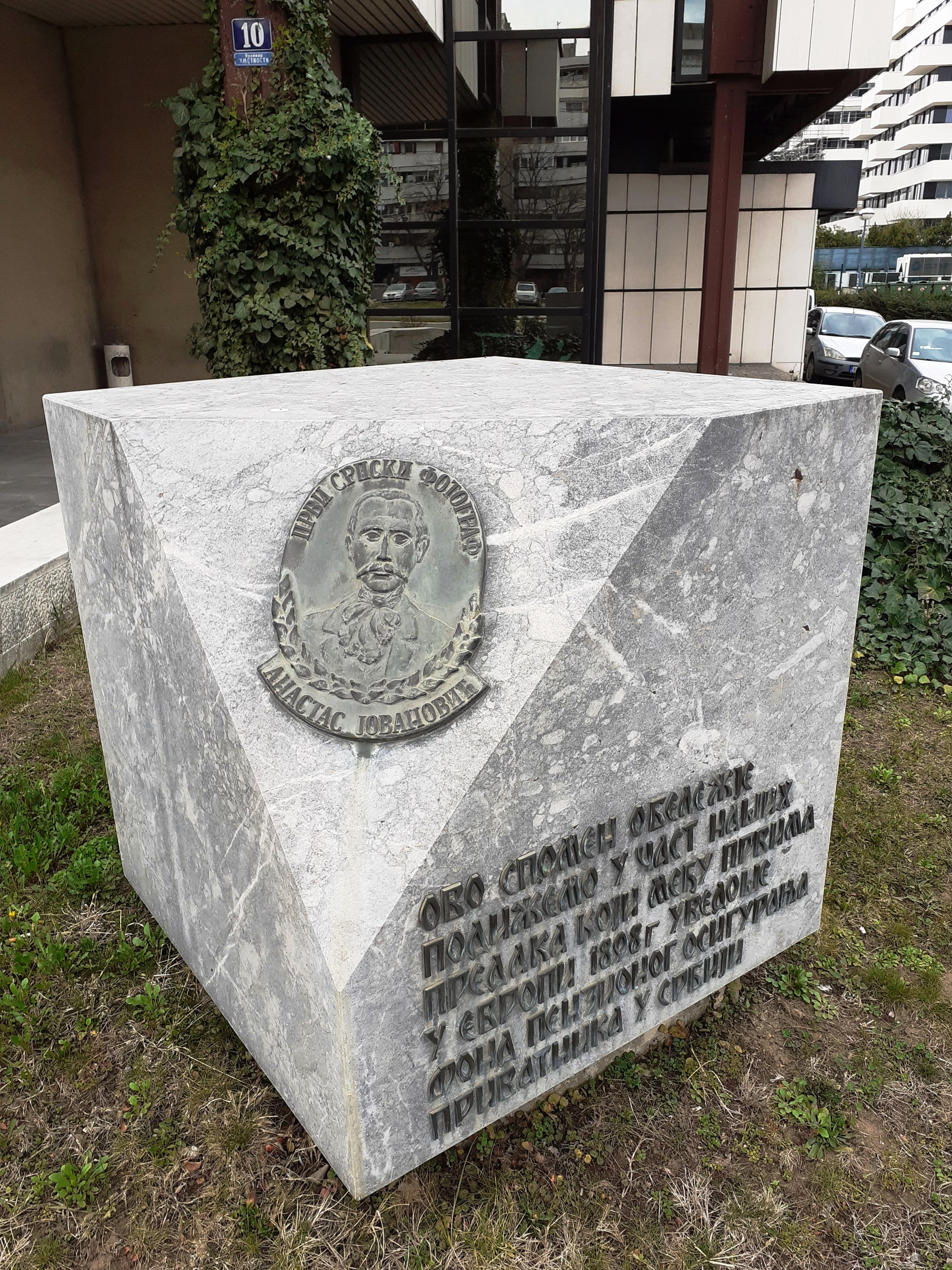 Memorial to Anastas Jovanovic in Belgrade, in front of the PIO Fund in New Belgrade